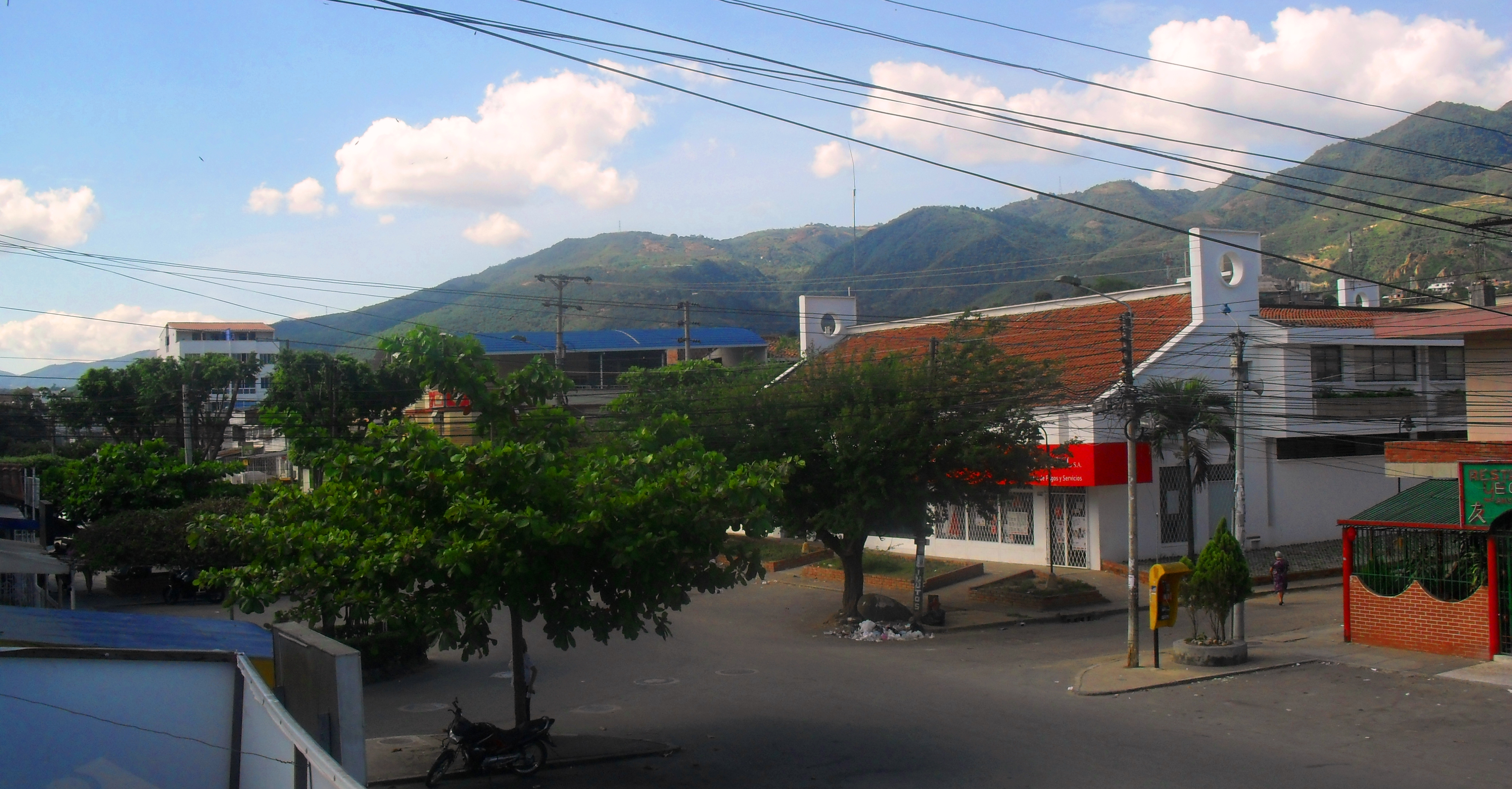 Girón is a municipality in Santander Department in northeastern Colombia.